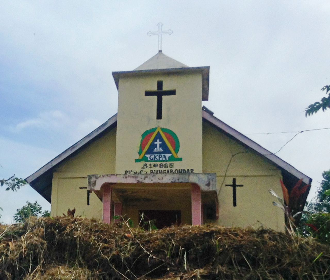 GKPA Sipogu, Church in Sipogu, Arse, South Tapanuli